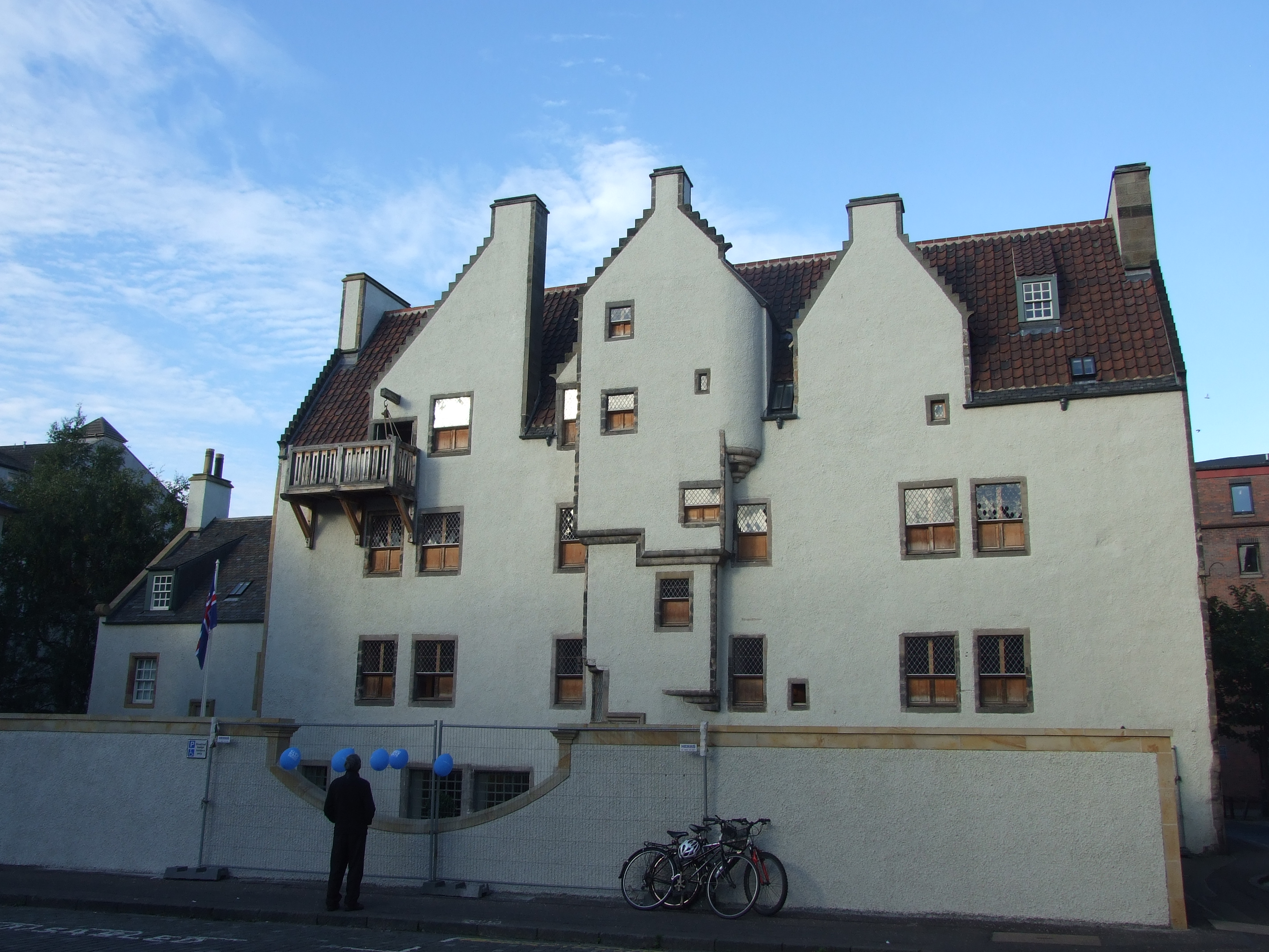 Lamb's House, 11 Water's Close, Leith. Building had been open for Edinburgh Doors Open Day, indicated by the blue balloons.